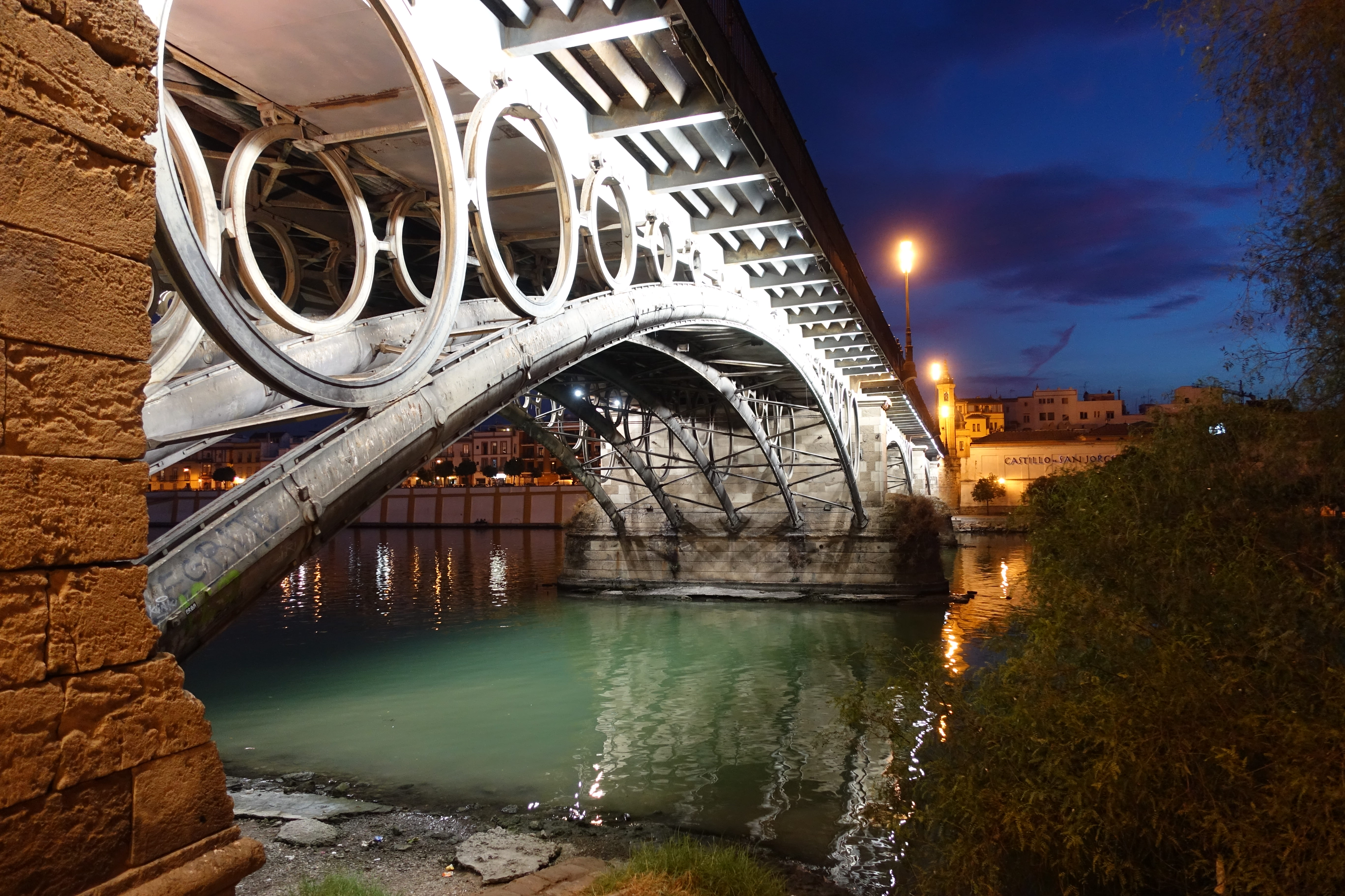 The underside of the Triana Bridge (Puente de Isabell II) at night